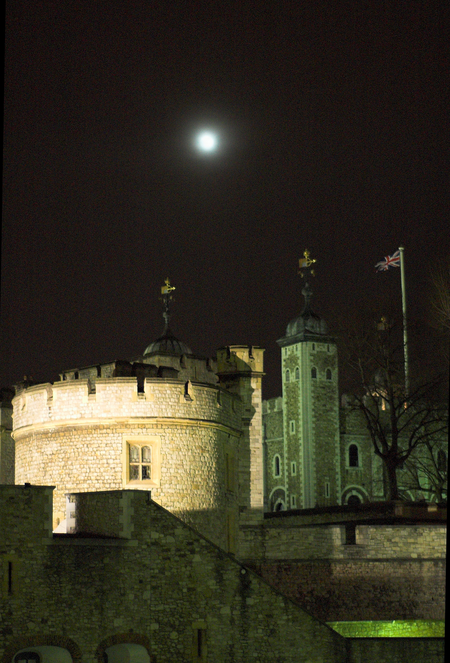 Tower of London at night